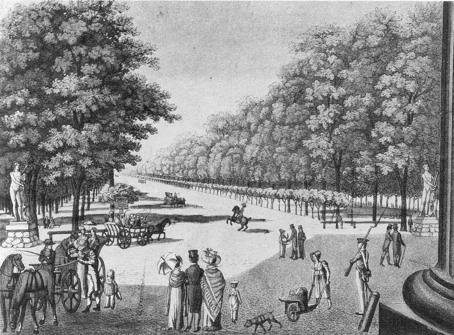 Square in front of the Brandenburg Gate (today: Platz des 18. März) in Berlin, showing Tiergarten park and two statues by Georg Franz Ebenhecht, "Pythian Apollon" and "Hercules with Lyra" (ca. 1746)